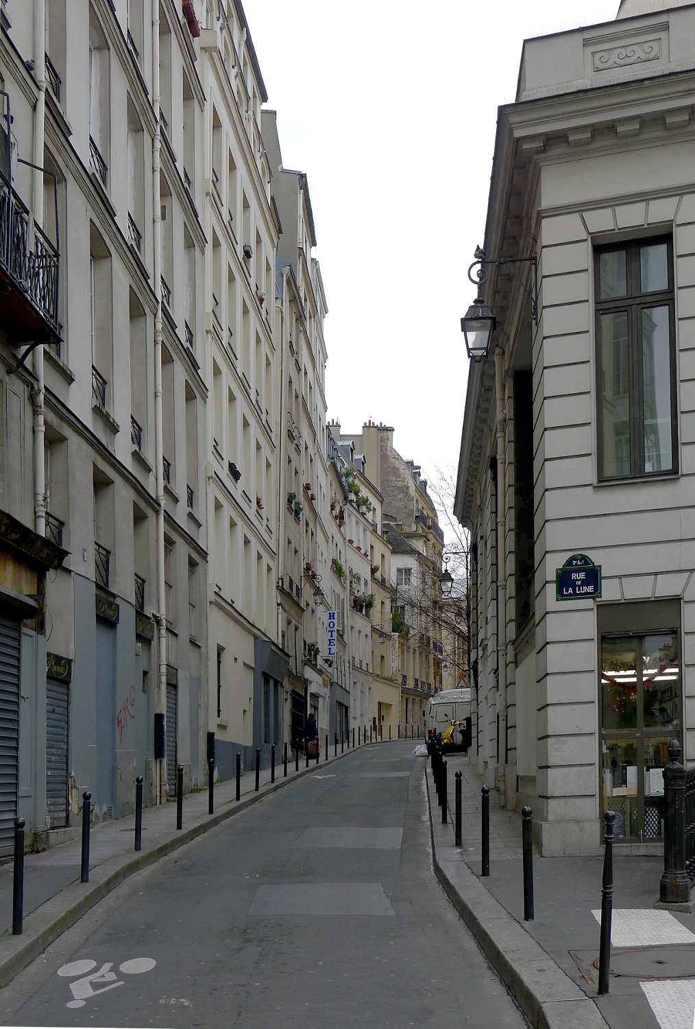 la Lune street - Paris